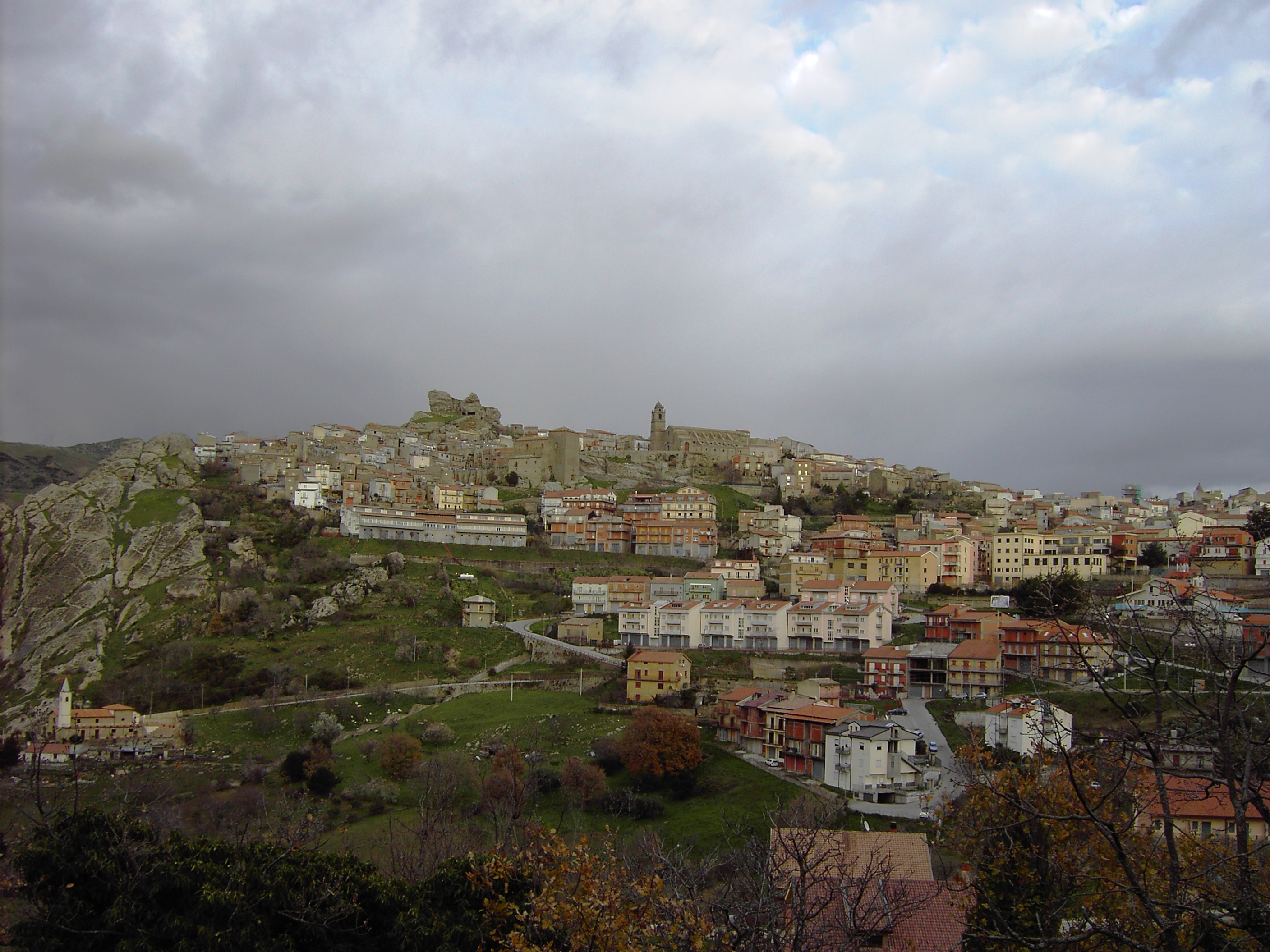 Panorama di Cerami (provincia di Enna, Sicilia)